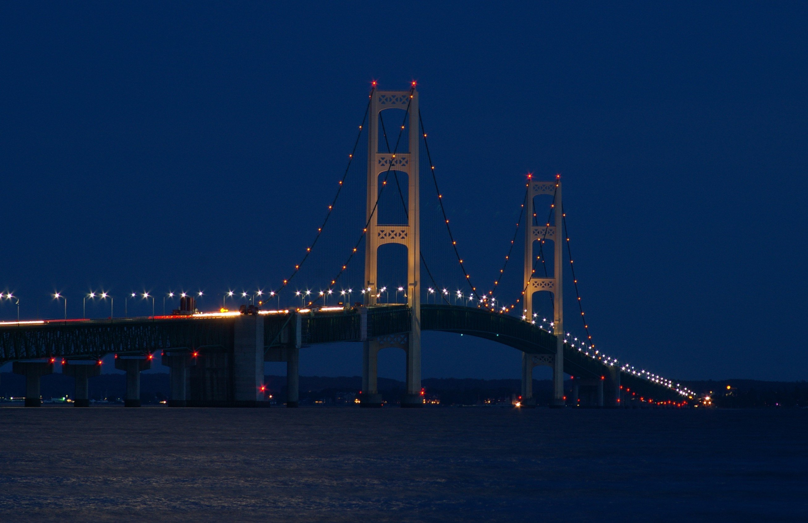 The Mackinac Bridge at night as seen from the rest area on the St. Ignace side.